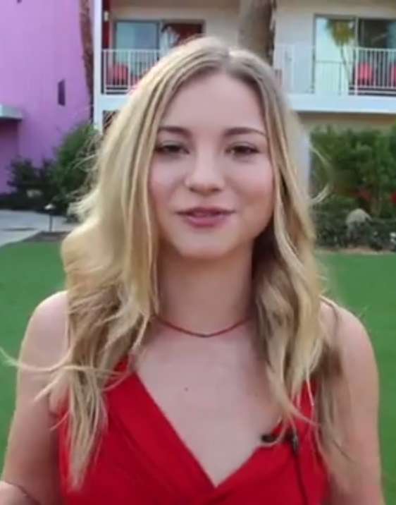 American actress Allie Gonino behind the scenes of the film Hidden Away (2013). CAST: Emmanuelle Vaugier, Ivan Sergei, Sean Patrick Flannery, Thomas Calabro, Elisabeth Rohm, Allie Gonino DIRECTOR: Peter Sullivan